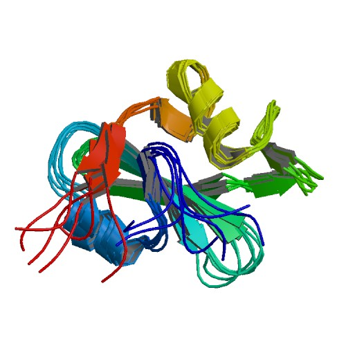 Bearbeiten von Image:PBB Protein ABL1 image.jpg